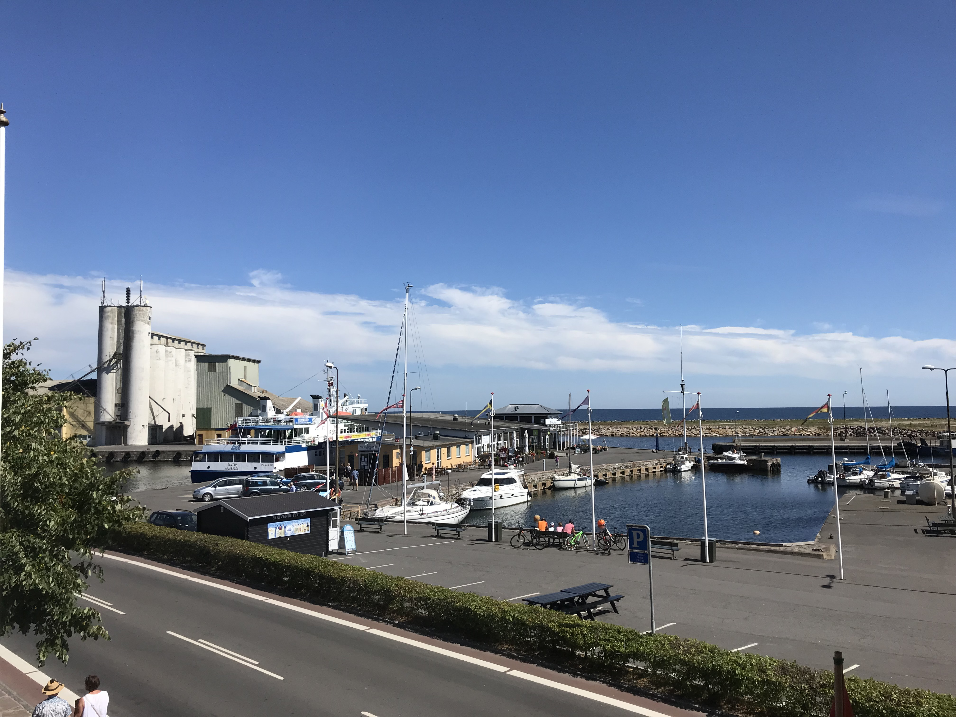 Nexø Museum, Bornholm, Denmark, on August 7, 2018.